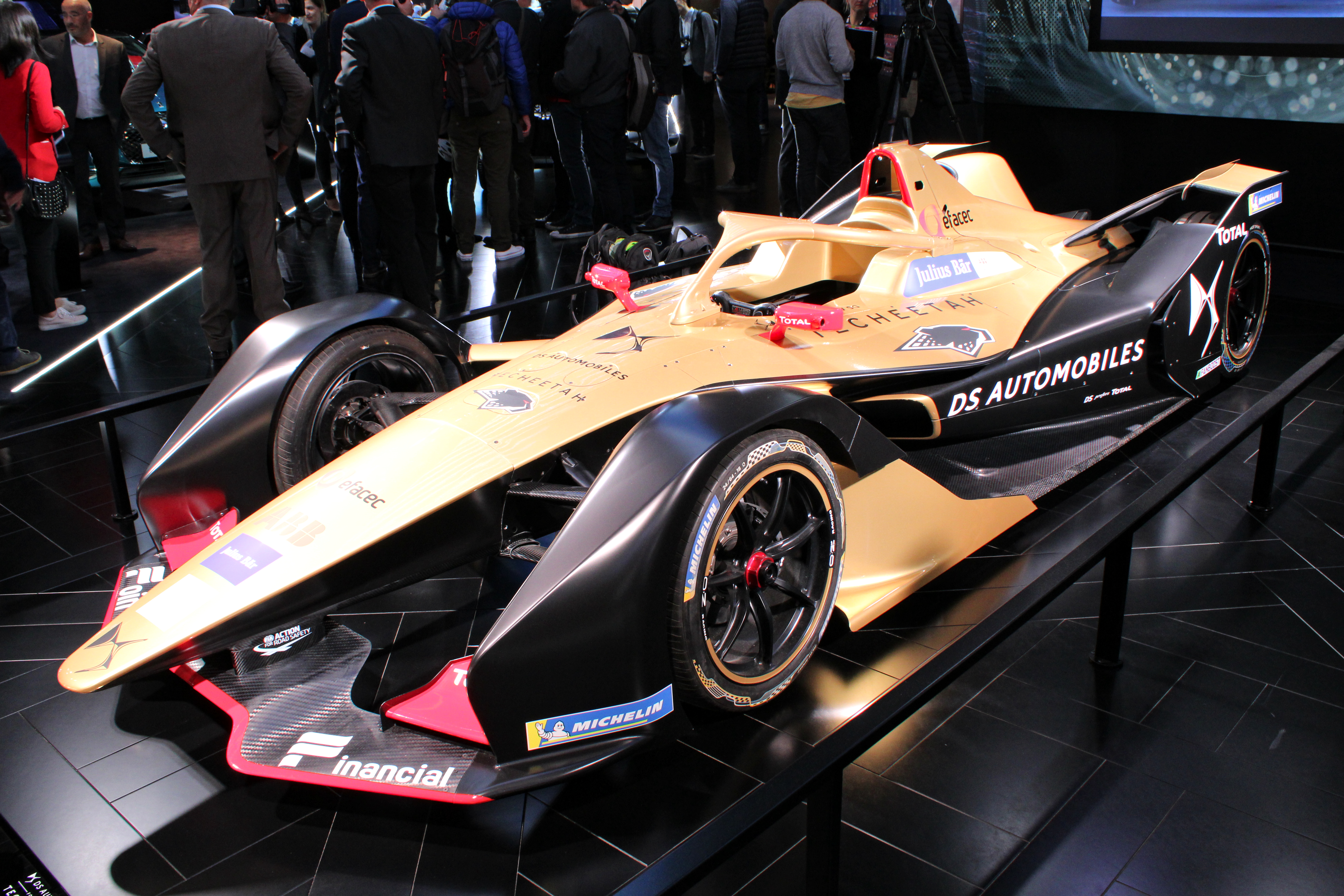 DS Formel E 2019 at Paris Motor Show 2018